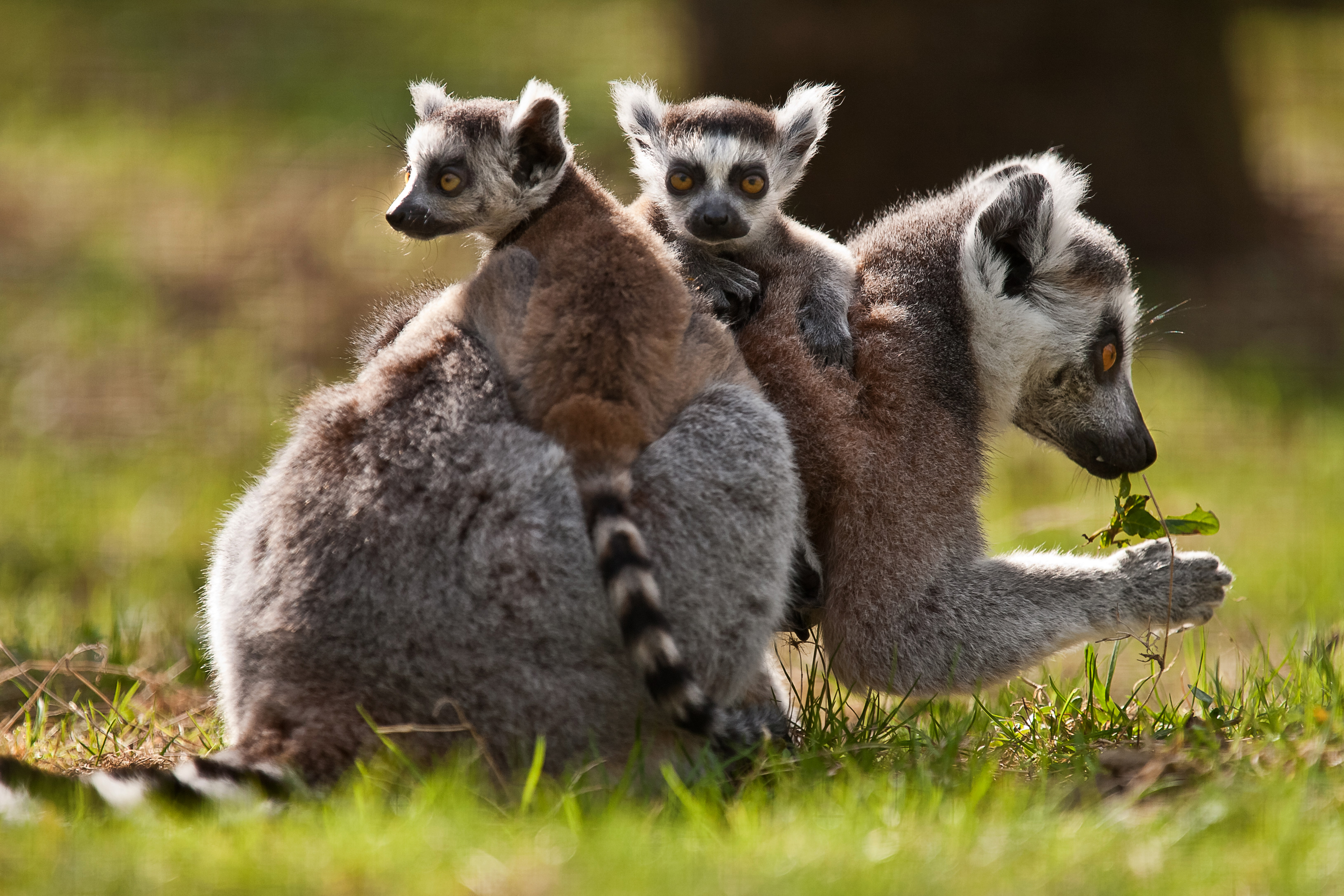 Ring-tailed lemur (Lemur catta)